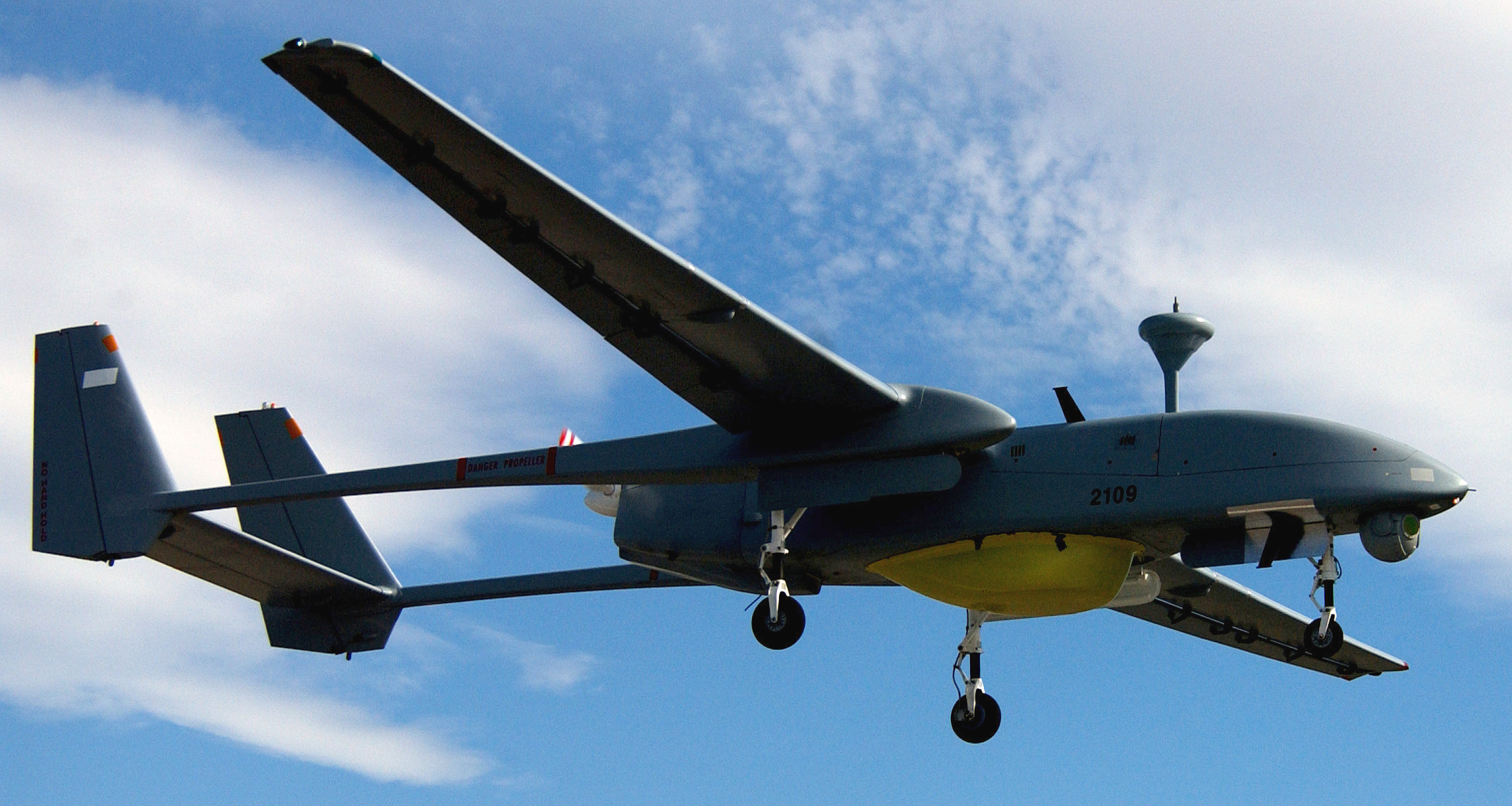 IAI Heron 1 UAV in flight Location: NAVAL AIR STATION, FALLON, NEVADA (NV) UNITED STATES OF AMERICA (USA)